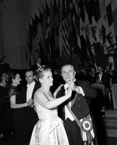 Chilean President (1946-1952) Gabriel Gonzalez Videla and his wife, Rosa Markmann Reijer, dance at a dinner in Washington, D.C. during their visit to the United States.